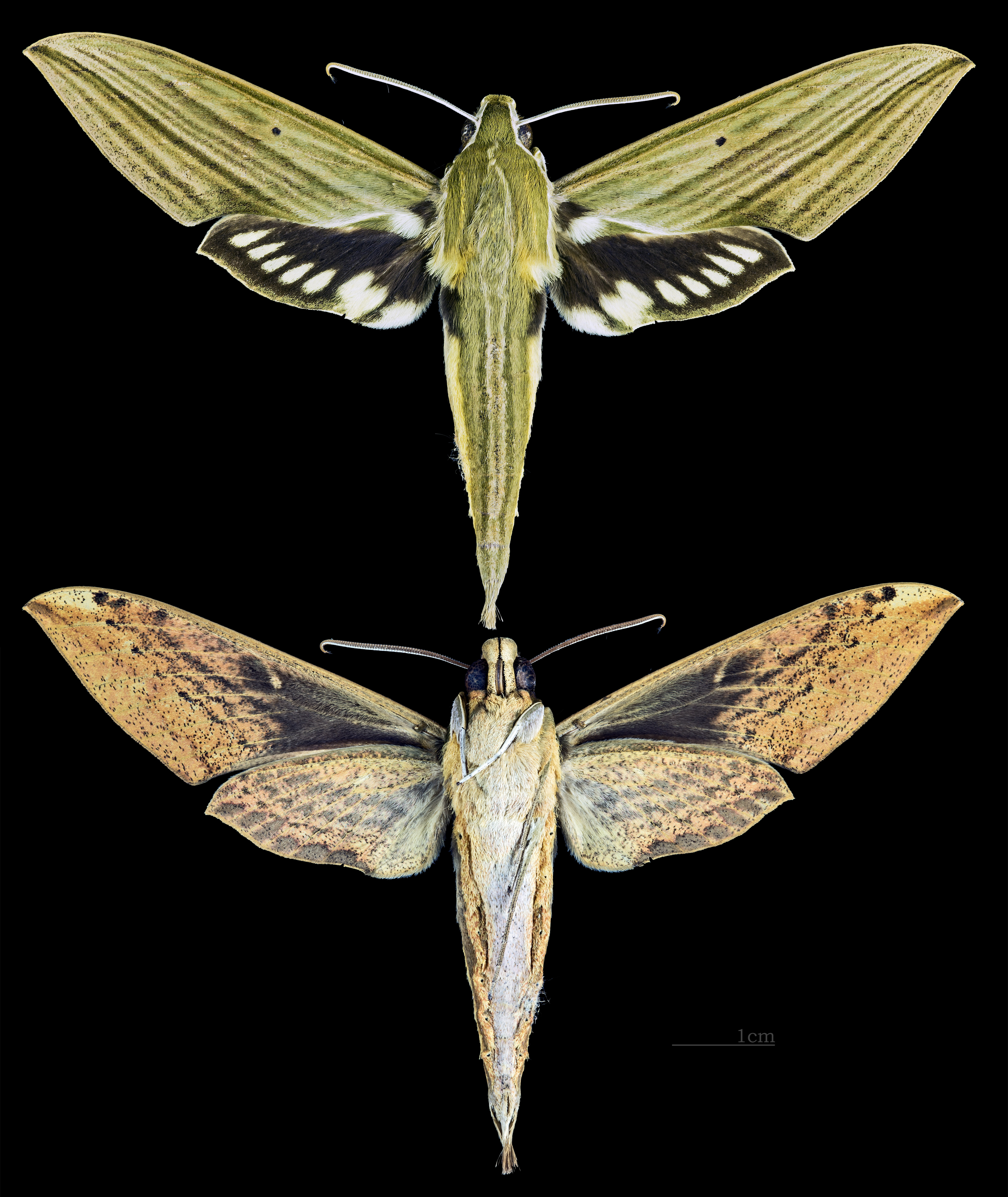 Xylophanes crotonis - Two views of same specimen